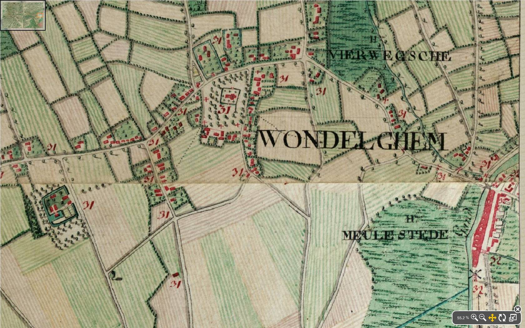 Wondelgem_en_Meulestede,_Ghent,_Belgium,_Ferraris_map_1775.jpg